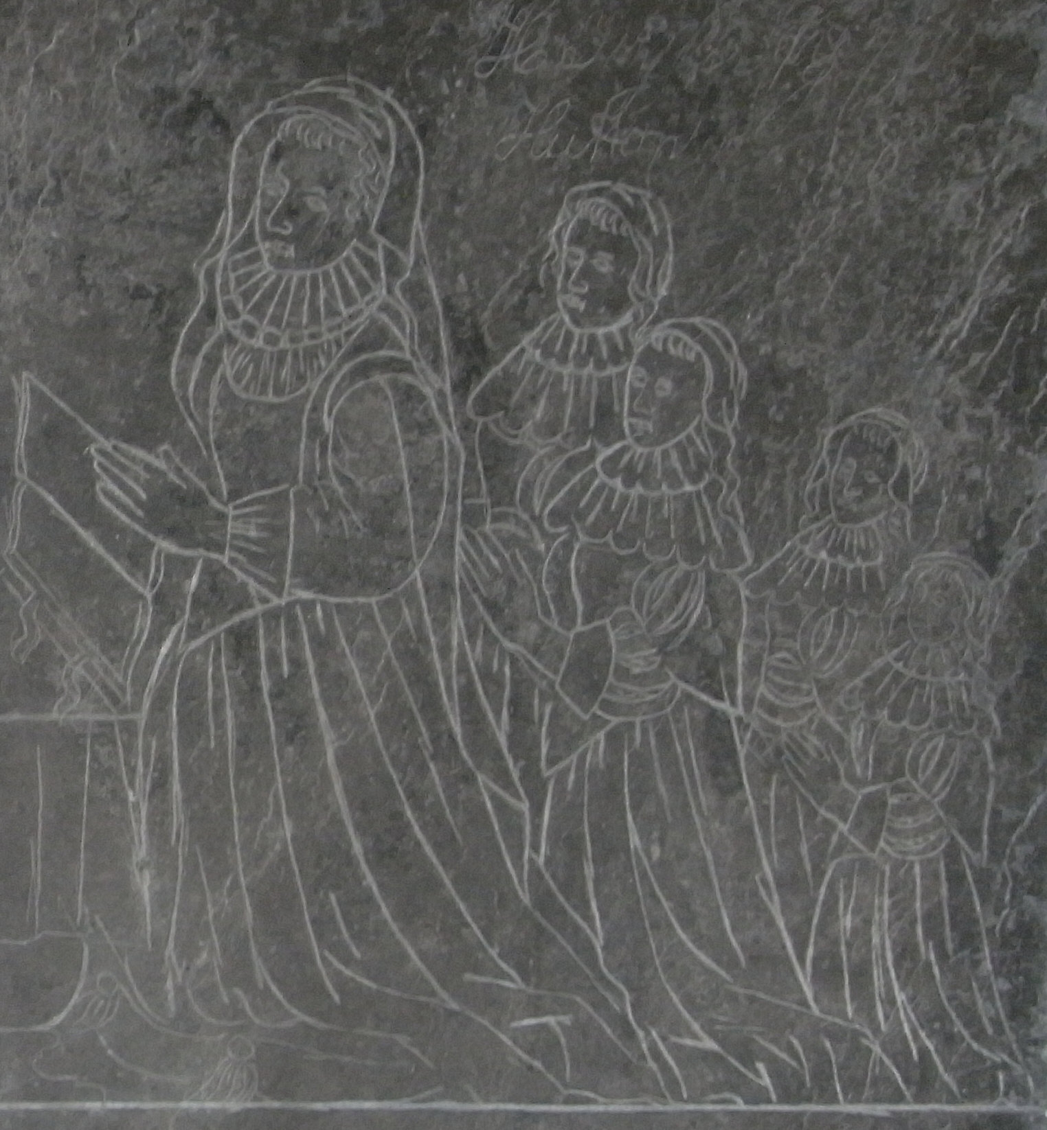 Jane Still (née Whitmore) (1587–1639) and her daughters depicted on an etched stone mural monument to her husband Nathaniel Still (died 2 February 1635) of Hutton, Somerset, England, UK, high on west wall of south aisle in the parish church of Saint Mary the Virgin, Hutton. Nathaniel was the son of John Still (c. 1543 – 26 February 1607/8), the Bishop of Bath and Wells. Jane later married Henry Dennis (Feb 1594 – 26 June 1638), High Sheriff of Gloucestershire. The inscription on the monument reads: "In memory of Nathanill Still of this parrish Esq., who dyed the second day of February Anno Domini 1626. Not that he needeth monuments of stone for his well-gotten fame to rest uppon but this was reard to testifie that hee lives in theire loves ye yet surviving for unto vertu who first raised his name hee left the preservation of the same and to posterity remaine it shall when brass and marble monuments shall fall".